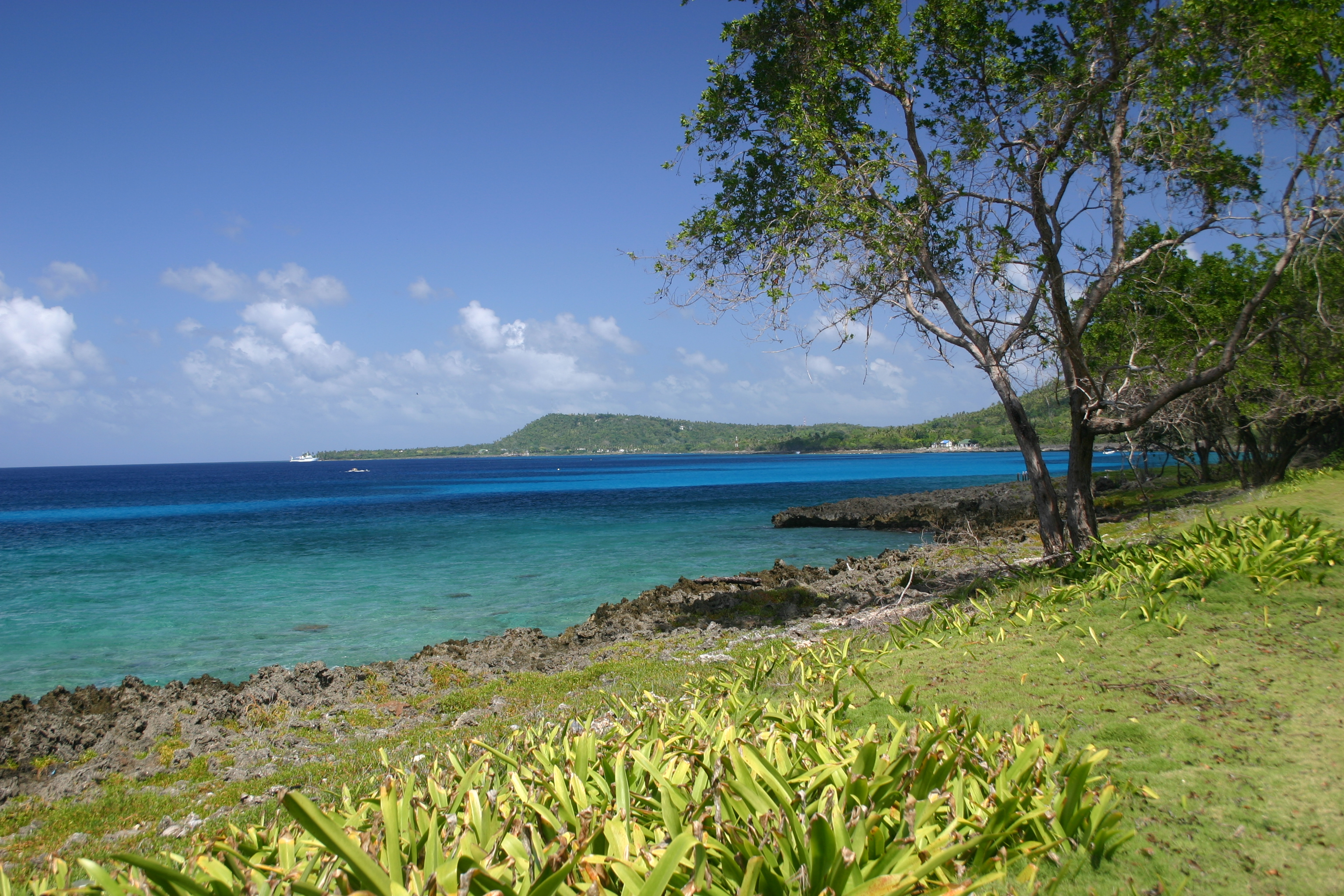 Island of San Andrés